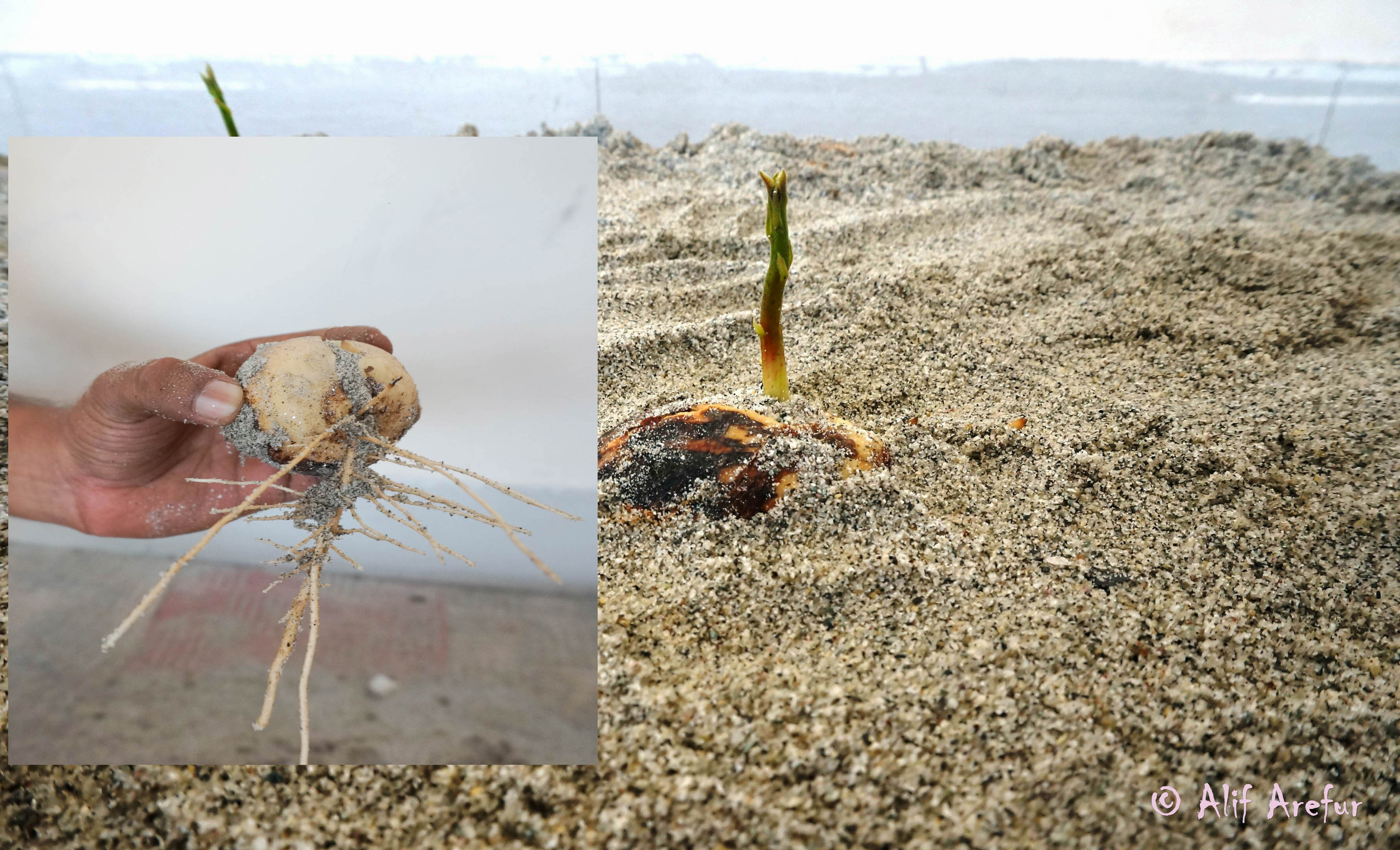 Shoot & root initiation from avocado seed at Malik's Farm